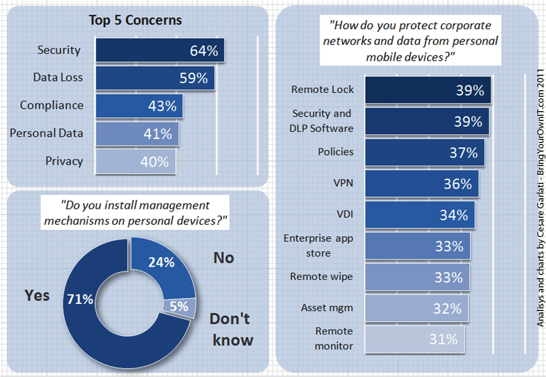 New IT tools reduce security risks and management costs - Security (64%) and data loss (59%) remain top concerns for most companies allowing employees to bring their personal devices in the workplace. Compliance and legal implications are greater concern in the U.S. and Japan than in Germany. To reduce security risks and to lower management costs, 79% of respondents require employees to install mobile security solutions on their personal mobile devices. 69% of respondents agreed that mobile device security is a key component in protecting their IT environments from employee-owned mobile devices while 71% of respondents consider a combination of mobile security and mobile device management to be the most effective.